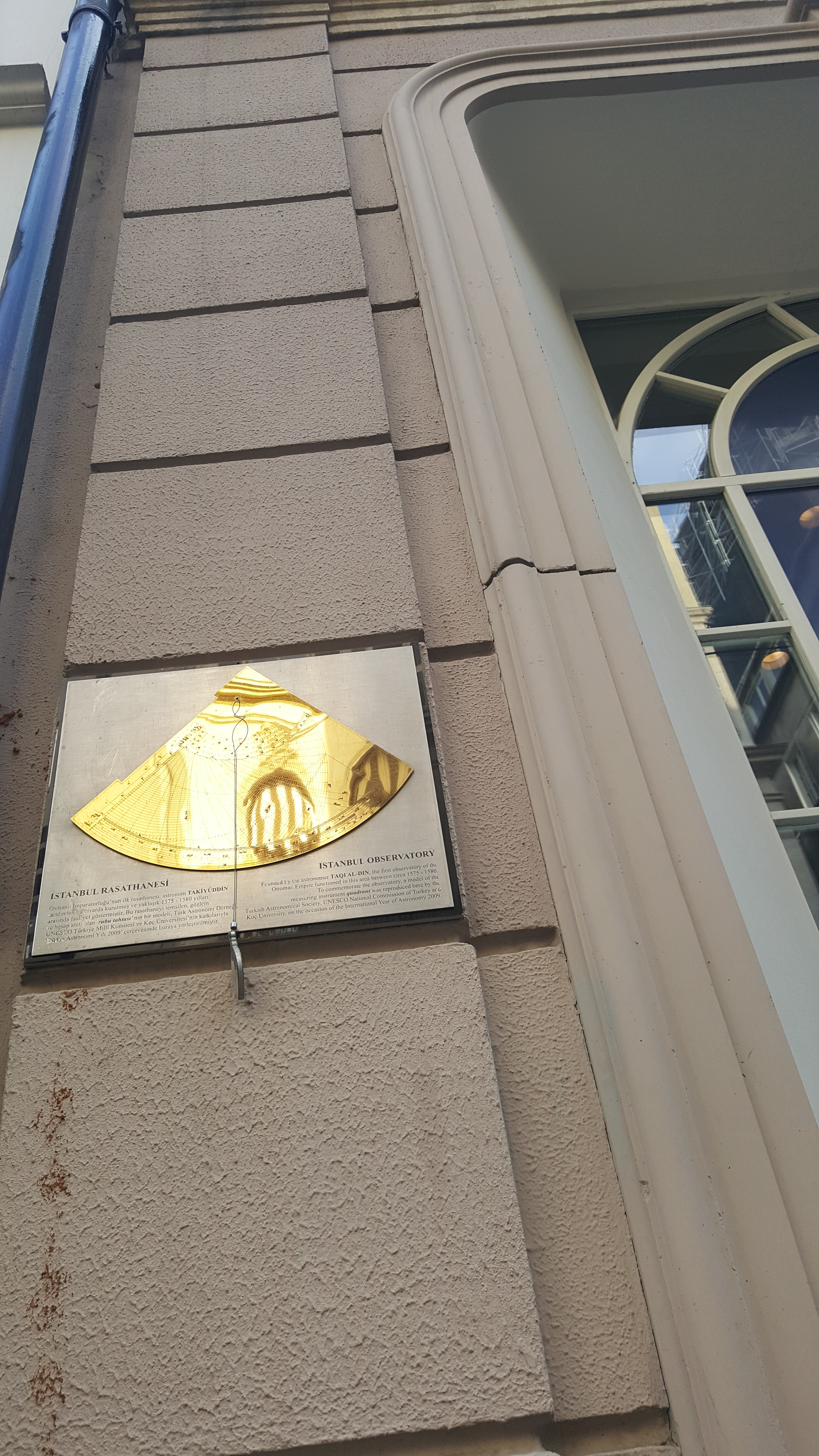 A model of a quadrant placed for the commmemoration of Istanbul observatory of Taqi ad-Din on a building in Istanbul in the area where the observatory was functioned